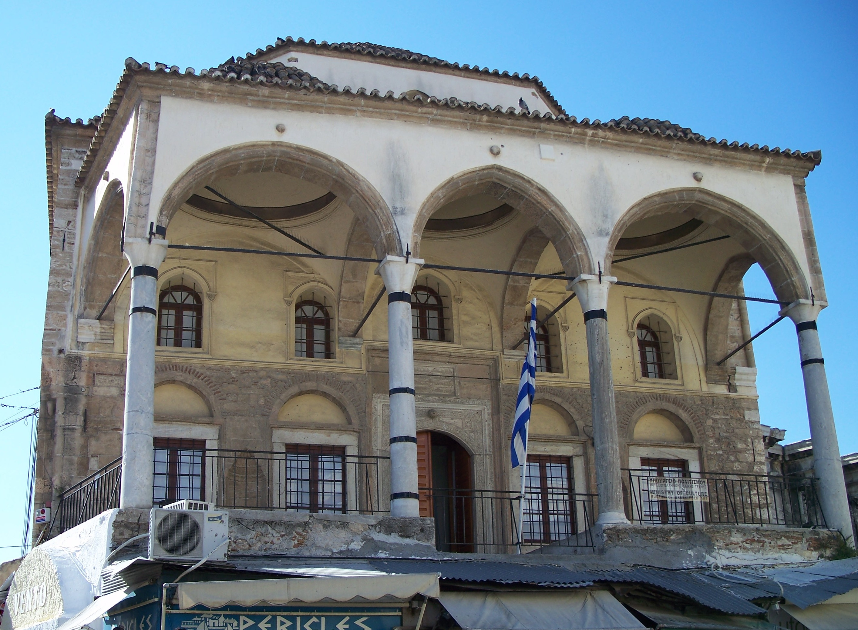 The Pasa Dzami Mosque, now a museum, at Monastiraki, Athens.